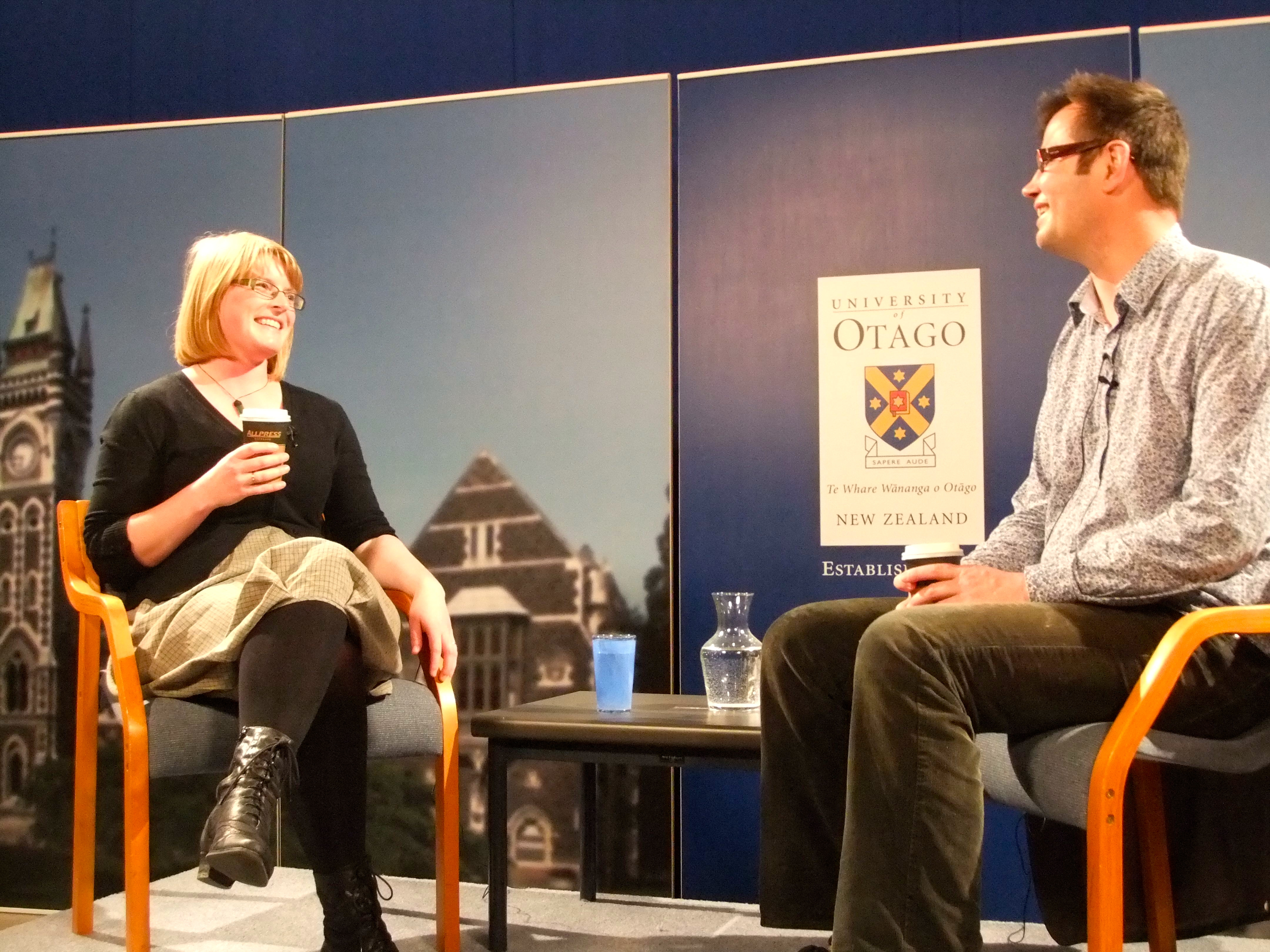 Bryce Edwards talking to the Green Party's Holly Walker in a University of Otago 'Vote Chat' election year forum in 2011.